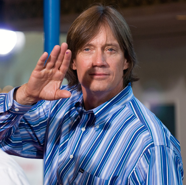 Kevin Sorbo at the premiere for Get Smart in June 2009.